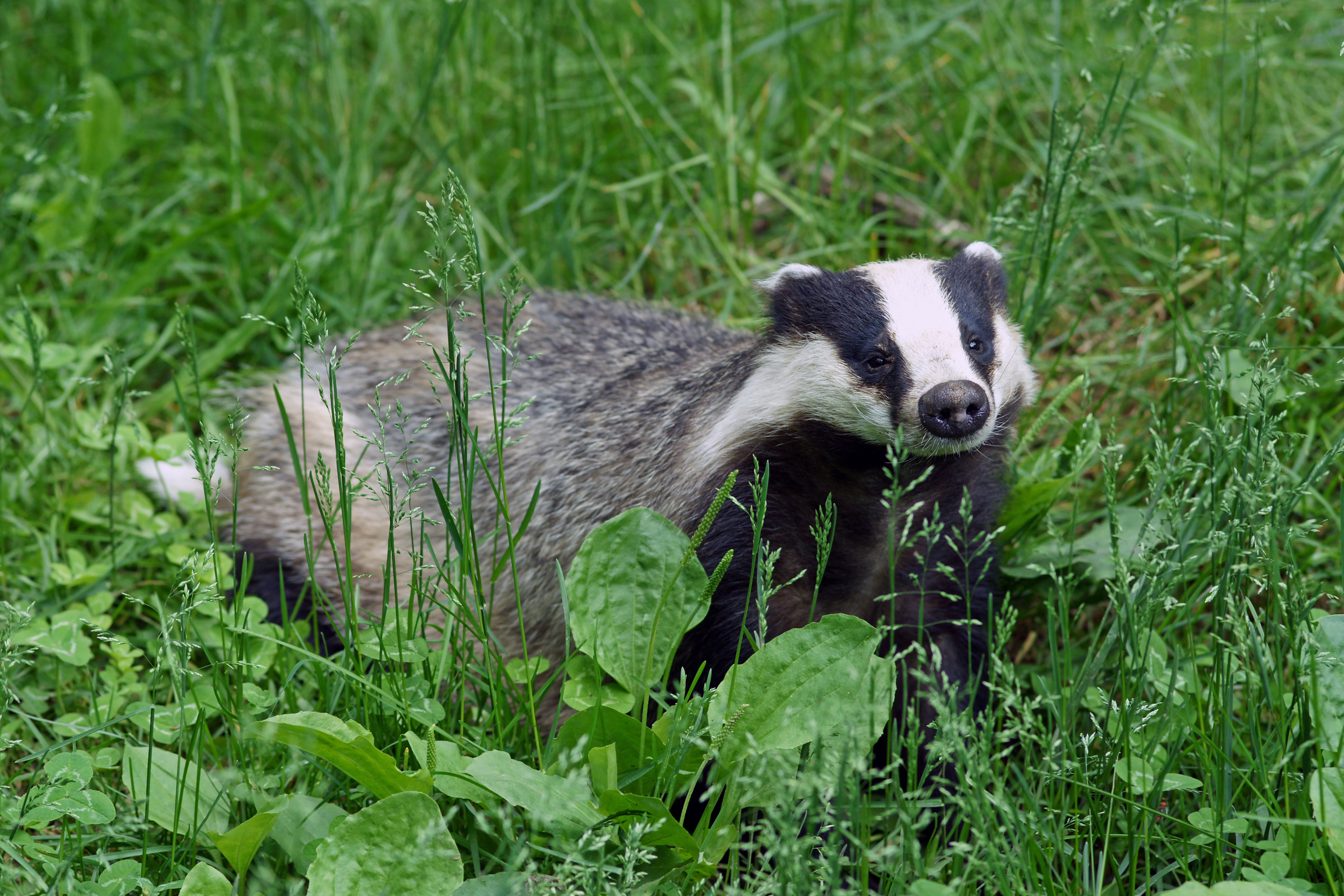 European badger (Meles meles) in Ähtäri Zoo.